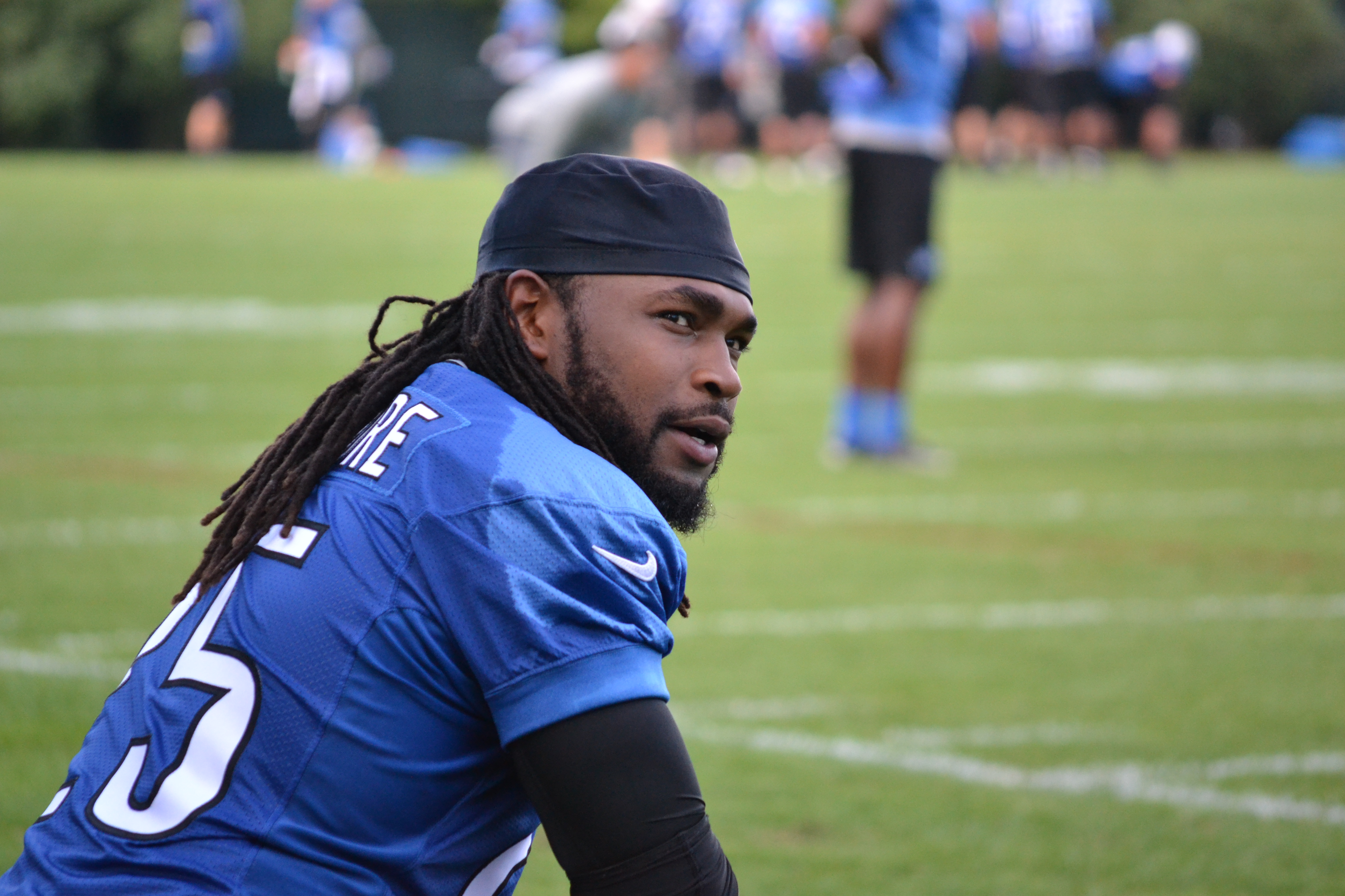 Mikel Leshoure at the 2012 Detroit Lions training camp